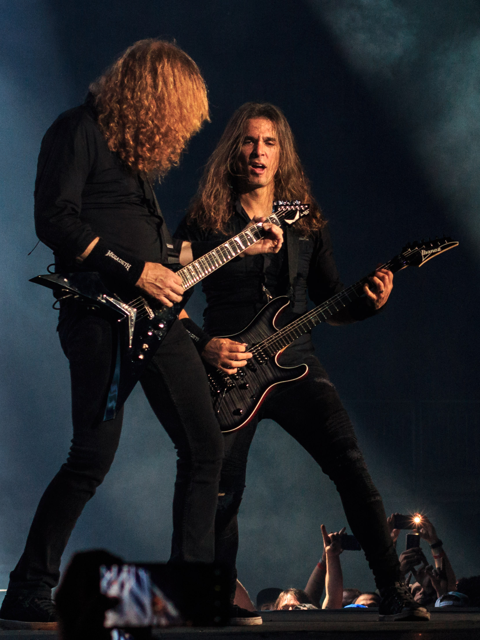 Dave Mustaine and Kiko Loureiro playing live with Megadeth at The O2, London, 16 June 2018